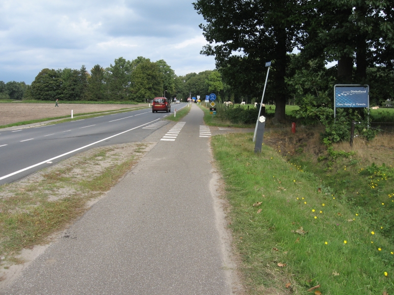 Sign marking the border of the municipality of Dinkelland